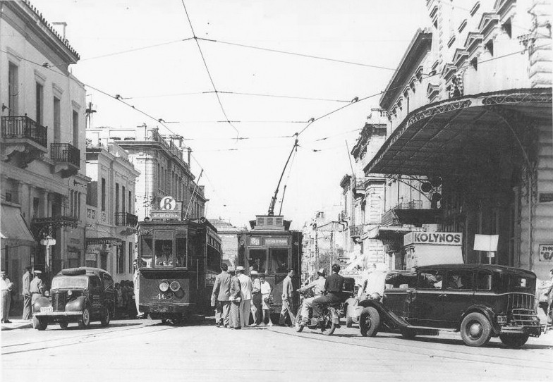 Trams, cars and people sometime in the early 50s at Omonia square. Omonoia Station of trams 6 & 8/9 (Start of 3rd September Street)